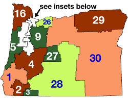 Modified by Pete Forsyth (me) from a government-produced map, available at